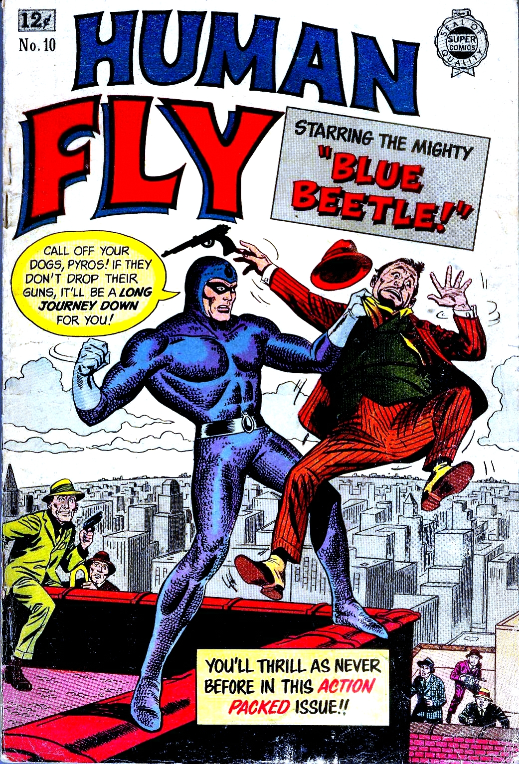 Cover scan of Human Fly, No. 10, I.W. Publishing, Unauthorized Blue Beetle Comics